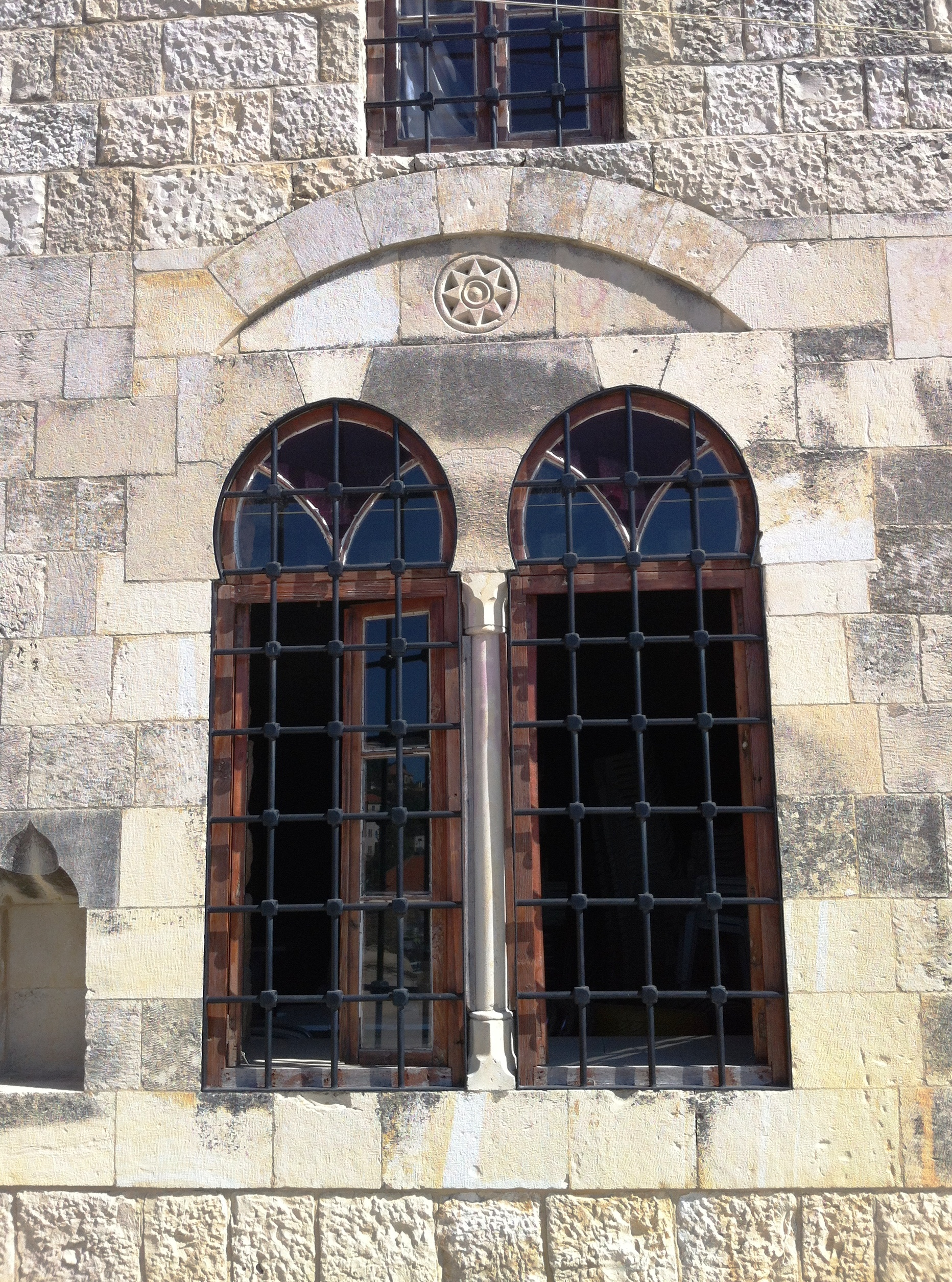 Mandaloun, a mullioned window typical to traditional Lebanese architecture. Formerly the Deir el Qamar synagogue.